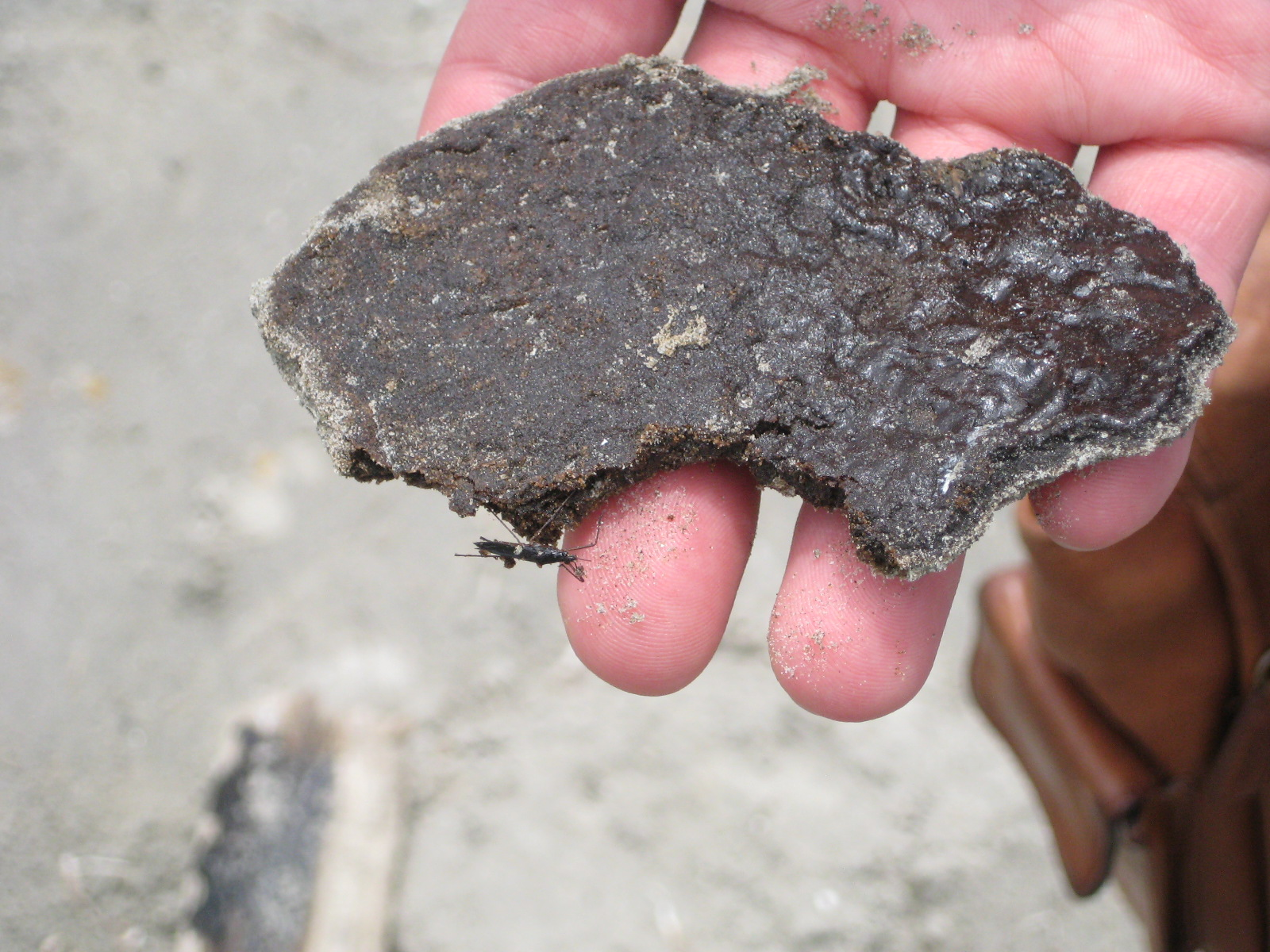 Governor Jindal landed on the sand berm at the Chandeleur Islands to highlight the significant construction progress being made and to show that the sand berms are working effectively to block oil from impacting Louisiana’s fragile wetlands. Photos courtesy of Governor Jindal’s office.